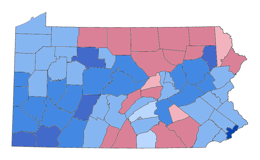 2004 PA Treasurer election results by county. Blue = Casey, Democrat. Red = Pepper, Republican.